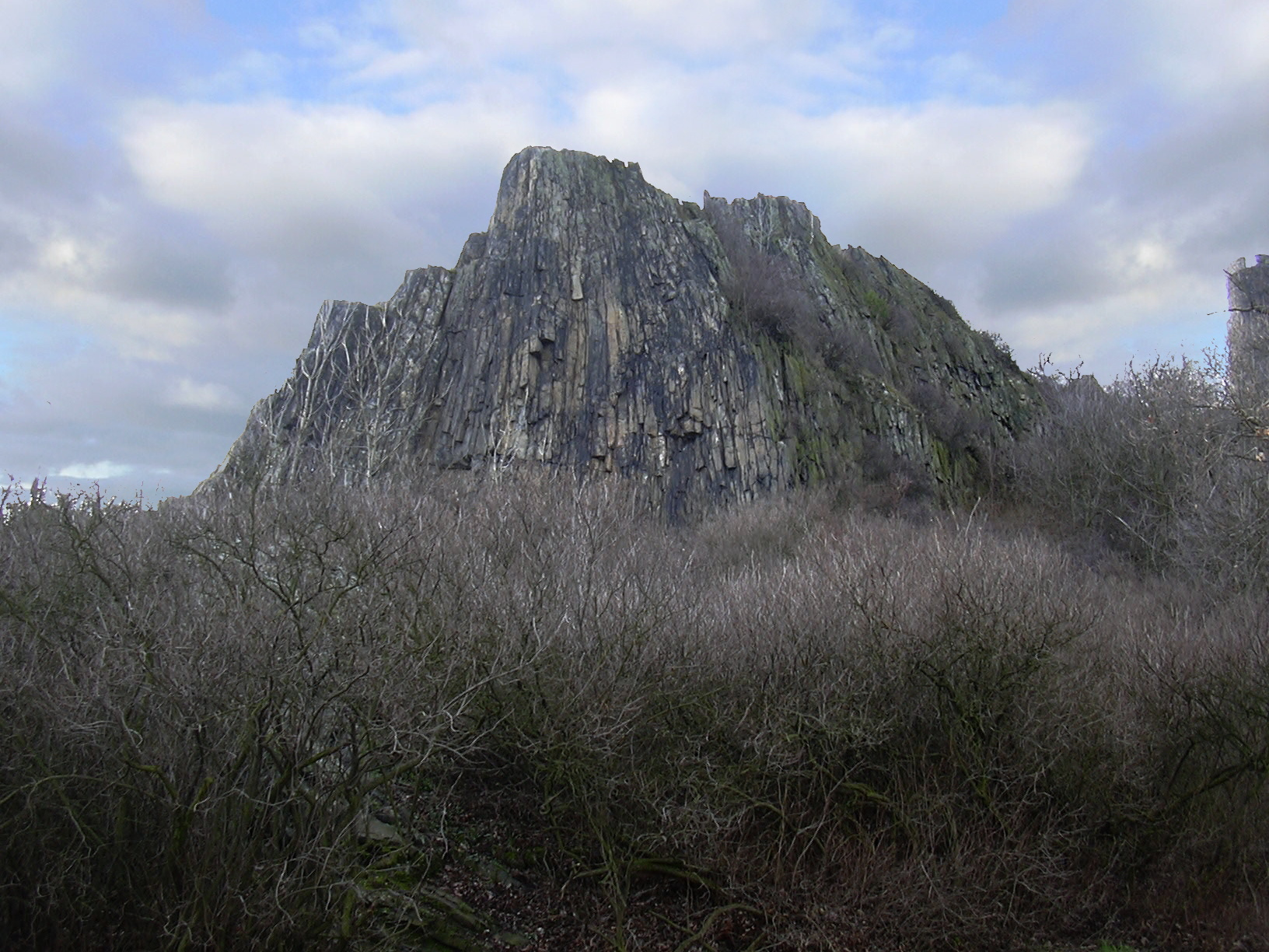 Columnar basalt rock under Black Tower of the Hazmburk Castle, Czech Republic. 31. prosince 2006 vyfotografoval Miraceti.